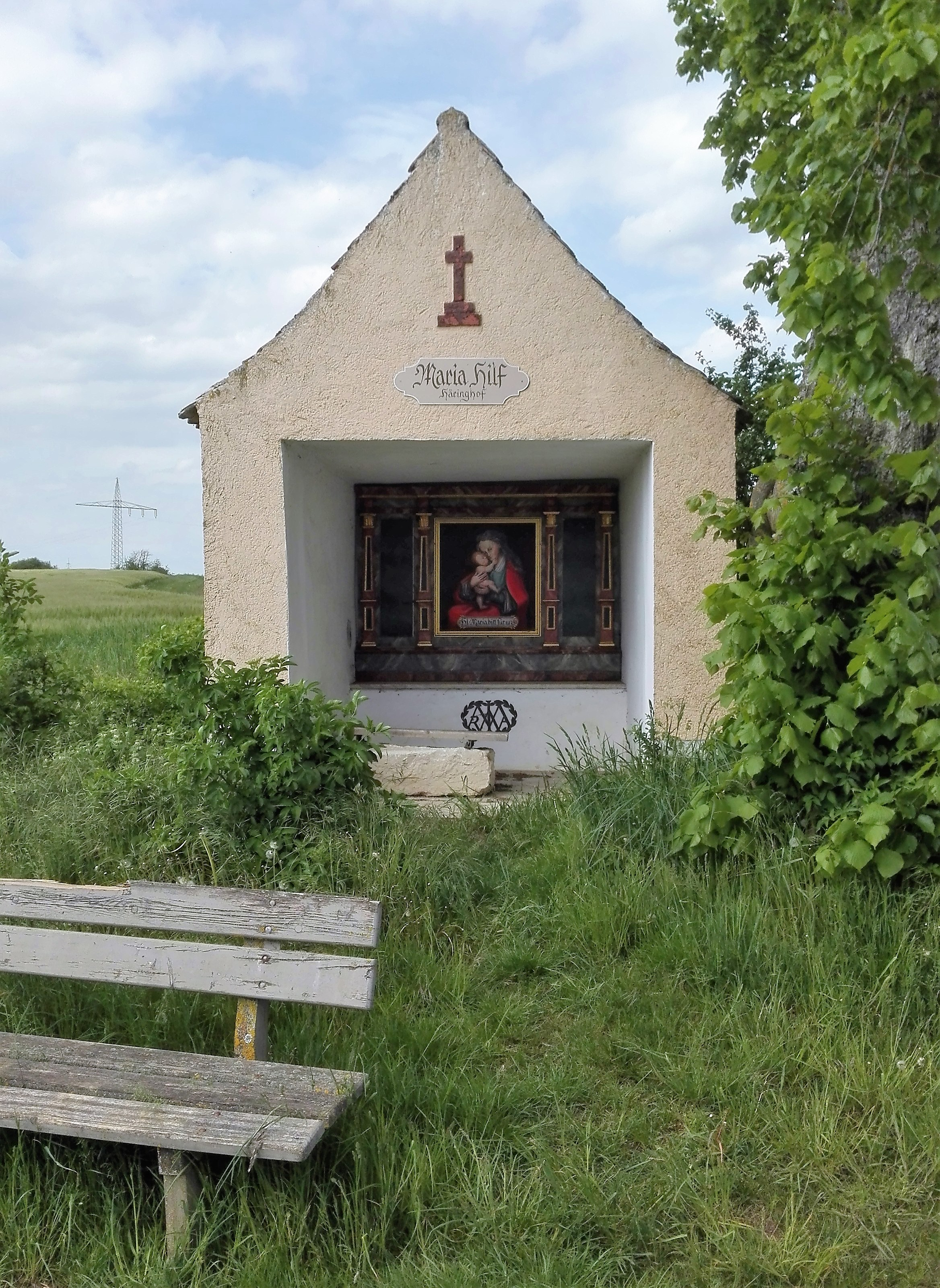 Chapel near Häringhof